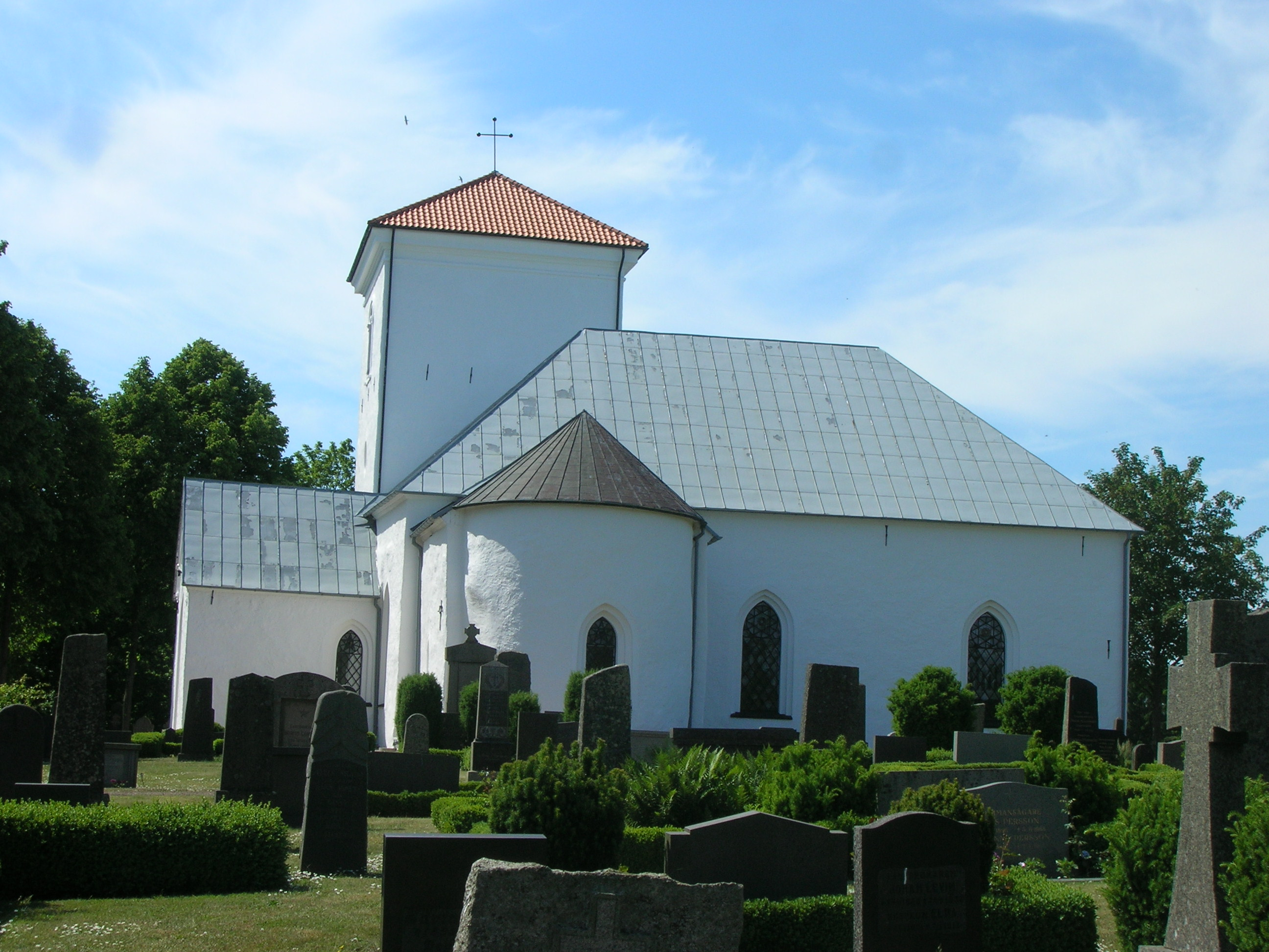 Andrarum Church, Tomelilla Municipality, Scania, Diocese of Lund, Sweden.